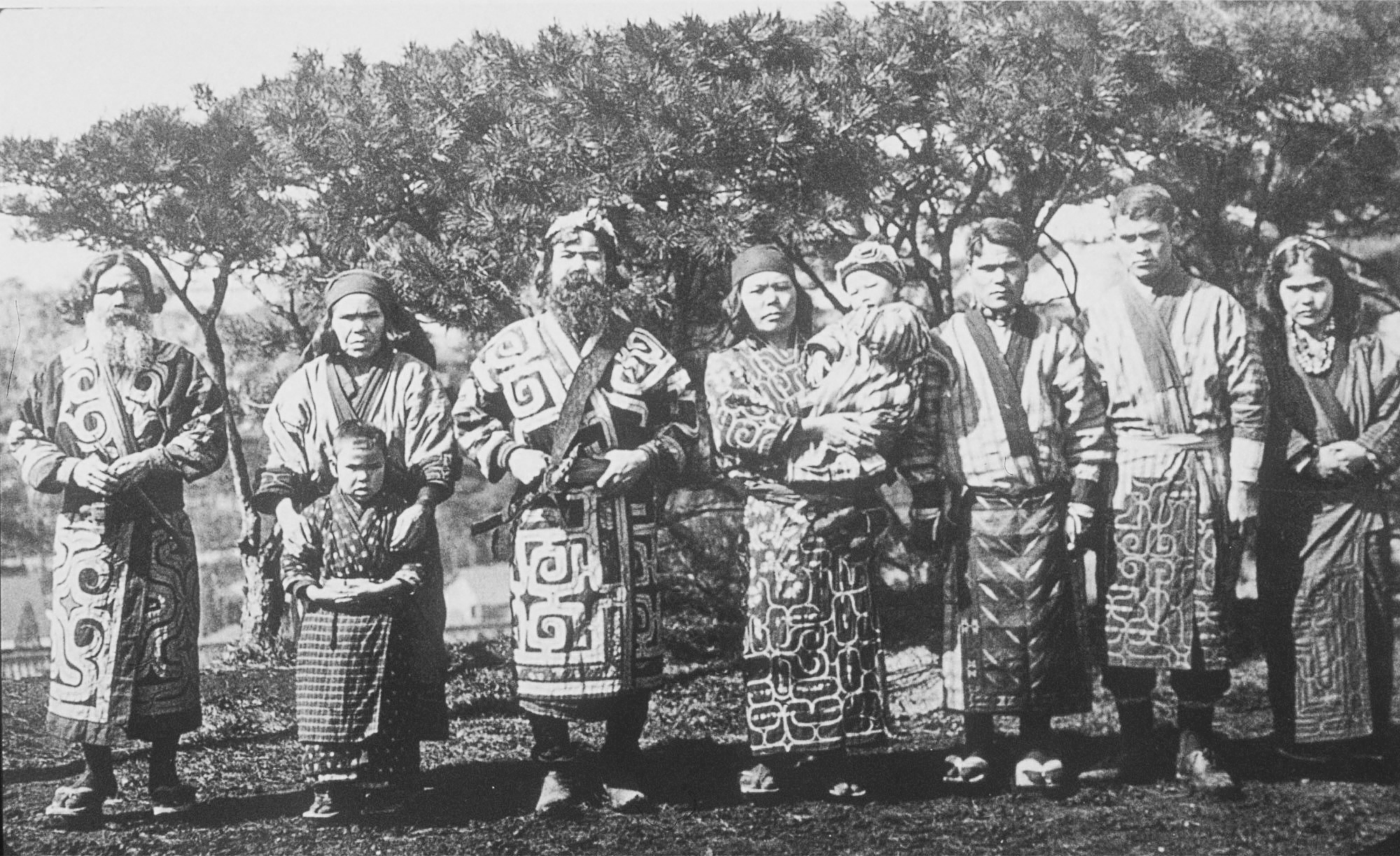 1904 photograph of a group of Ainu people.